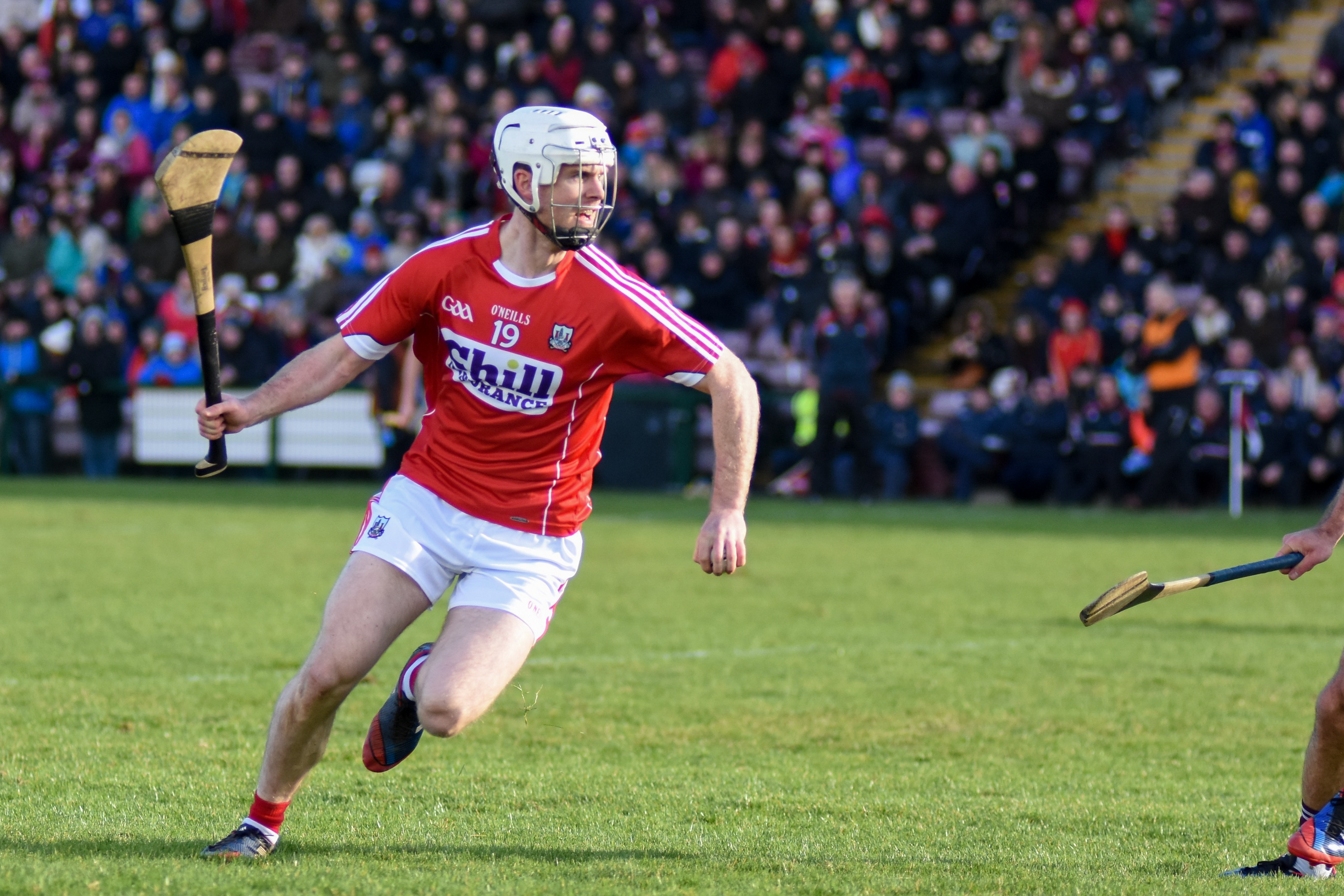 Brian Lawton in action for Cork against Galway in the 2016 National Hurling League at Pearse Stadium